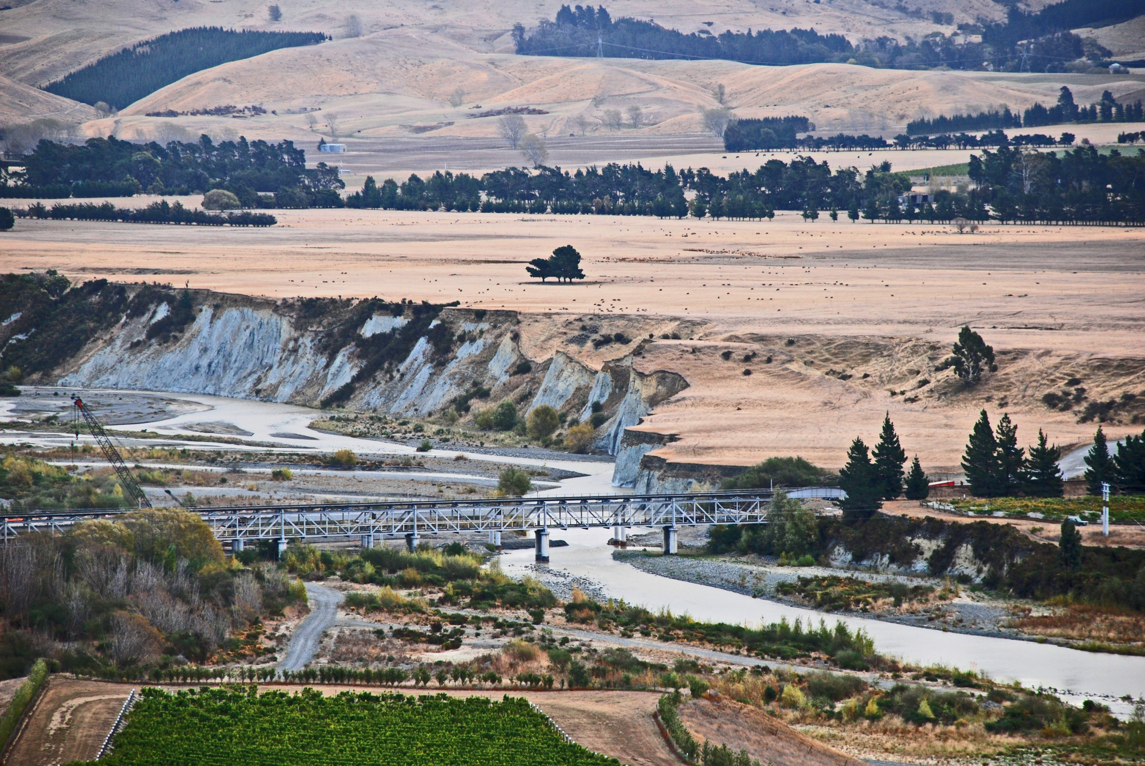 Seddon double-decker bridge, Marlborough, New Zealand, 13 April 2007